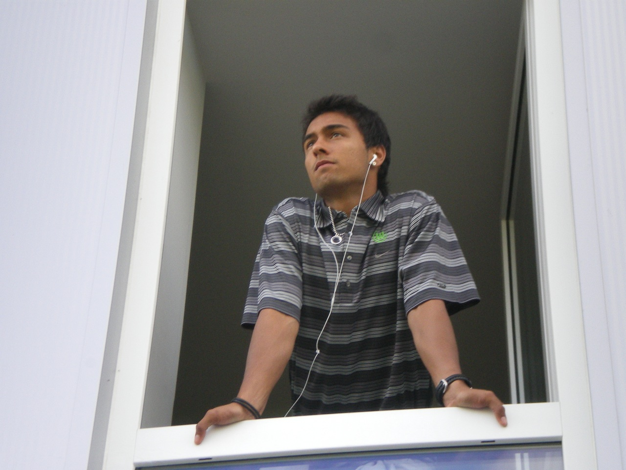 Kamani Hill watching a pre-season match of his club VfL Wolfsburg